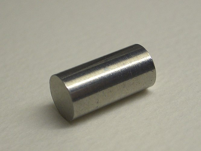 A cylinder of molybdenum metal